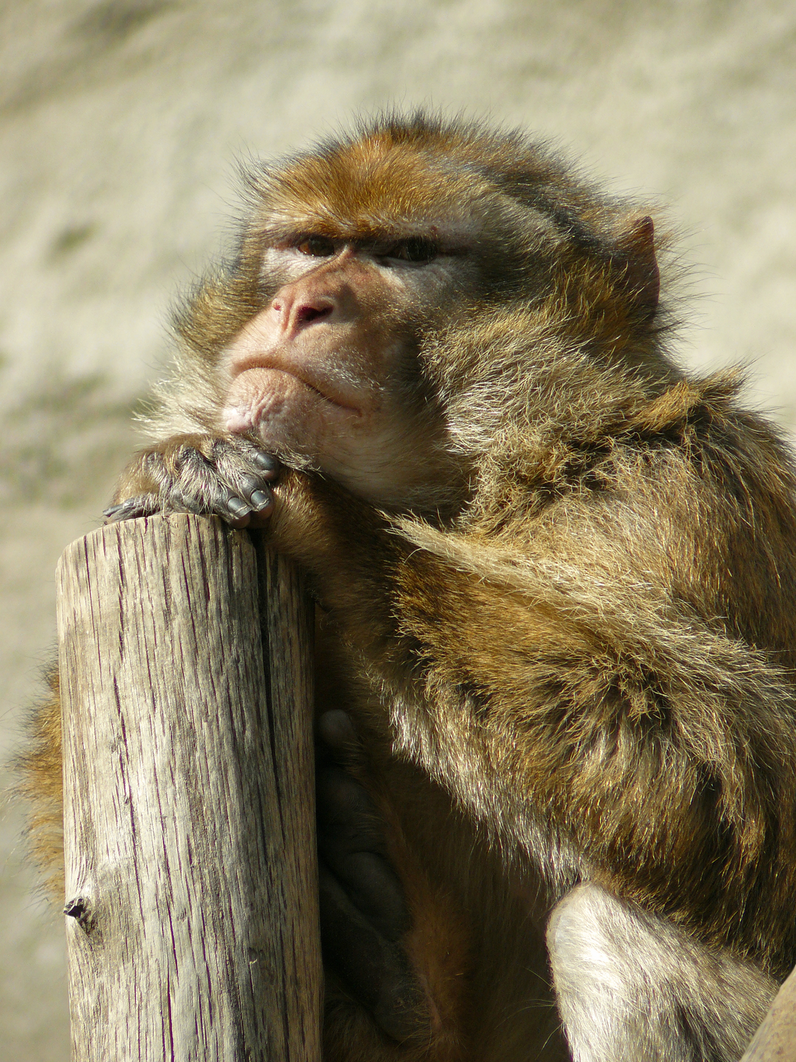 Portrait of a Barbary Macaque, taken in Budapest Zoo